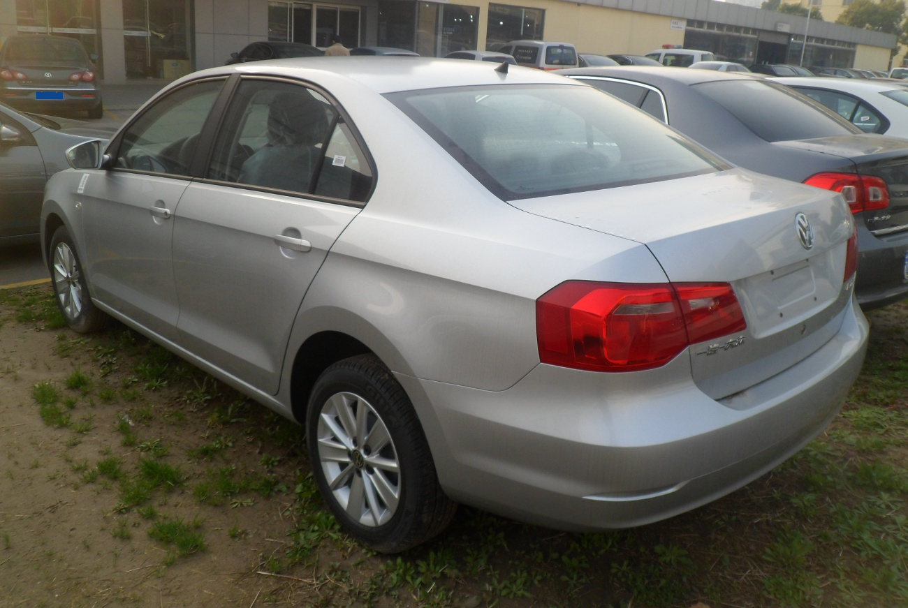 Volkswagen Jetta CN II photographed in Shanghai, China.